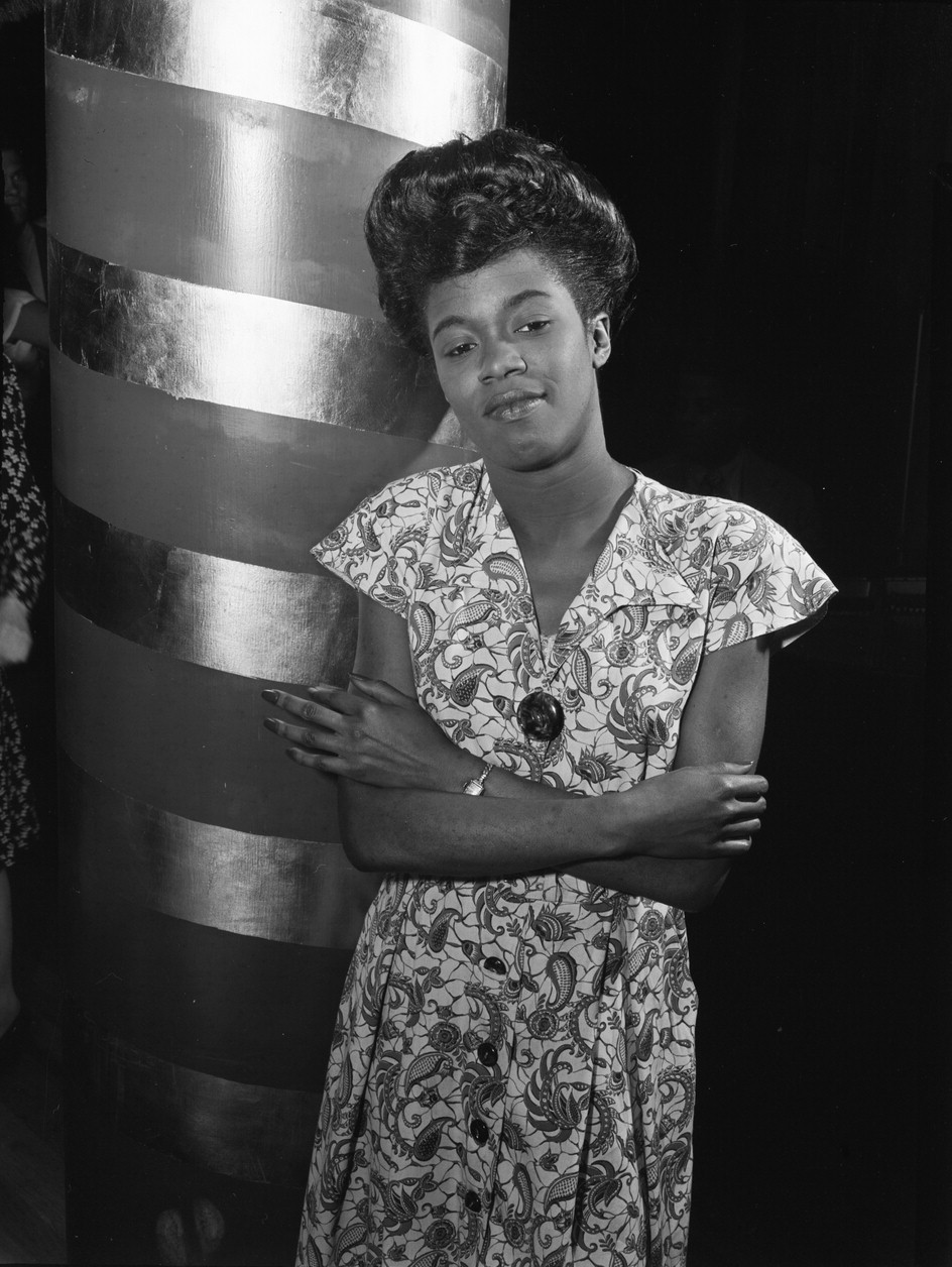 Portrait of Sarah Vaughan, Café Society (Downtown), New York, N.Y., ca. Sept. 1946 / Photography by William P. Gottlieb